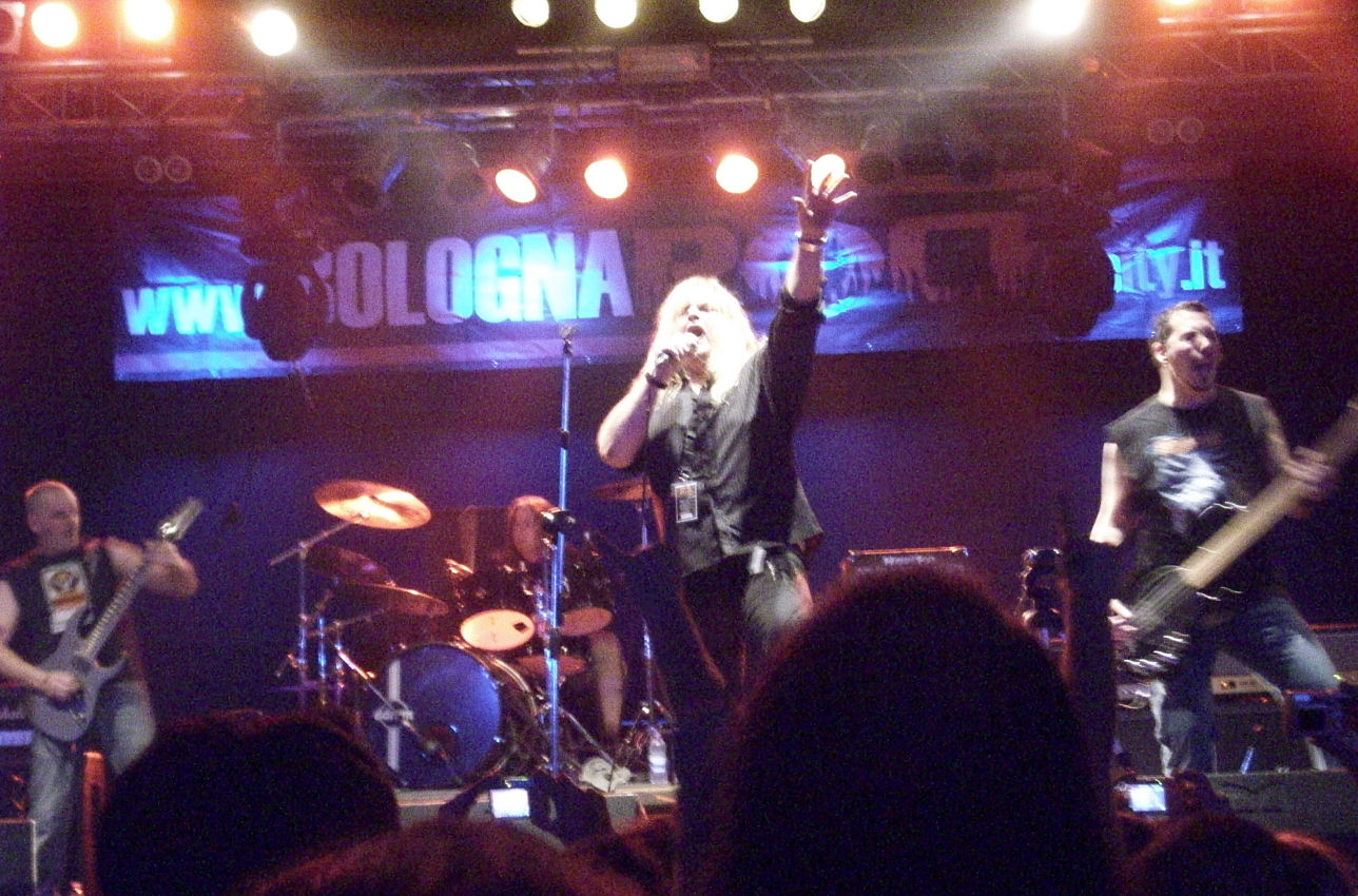 Grim Reaper live at British Steel Fest in Bologna, Italy on November 07, 2010